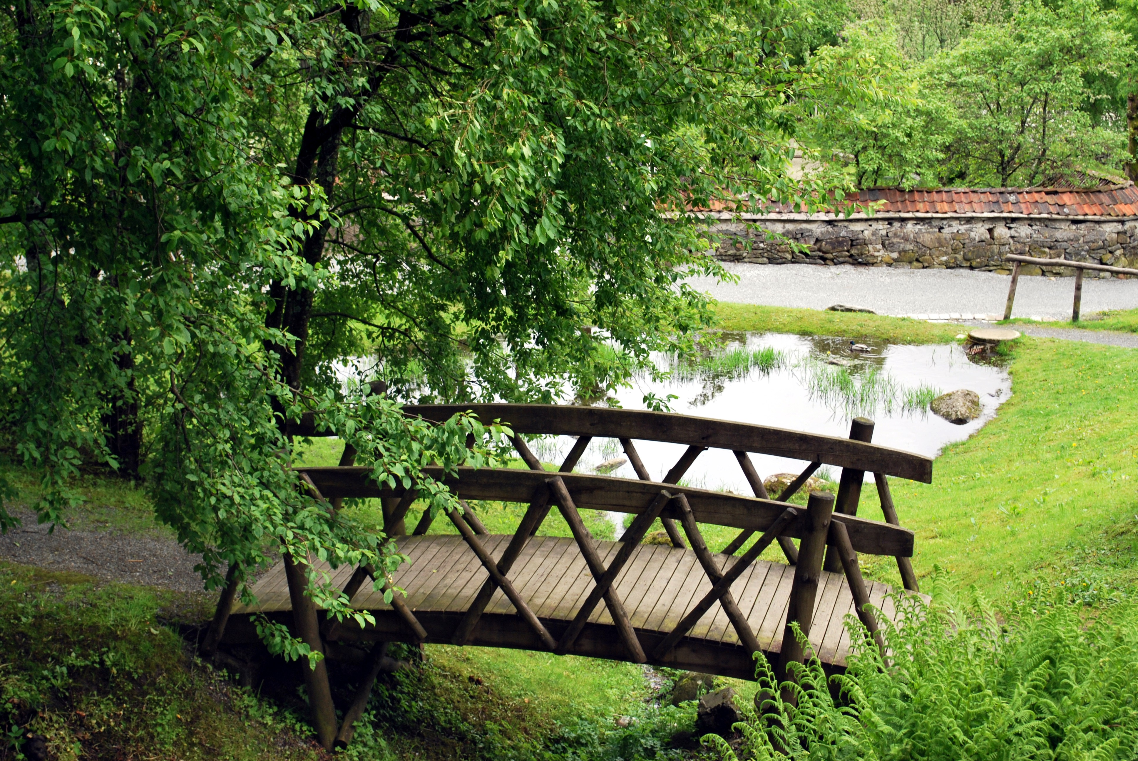 Park by Damsgård hovedgård in Bergen.